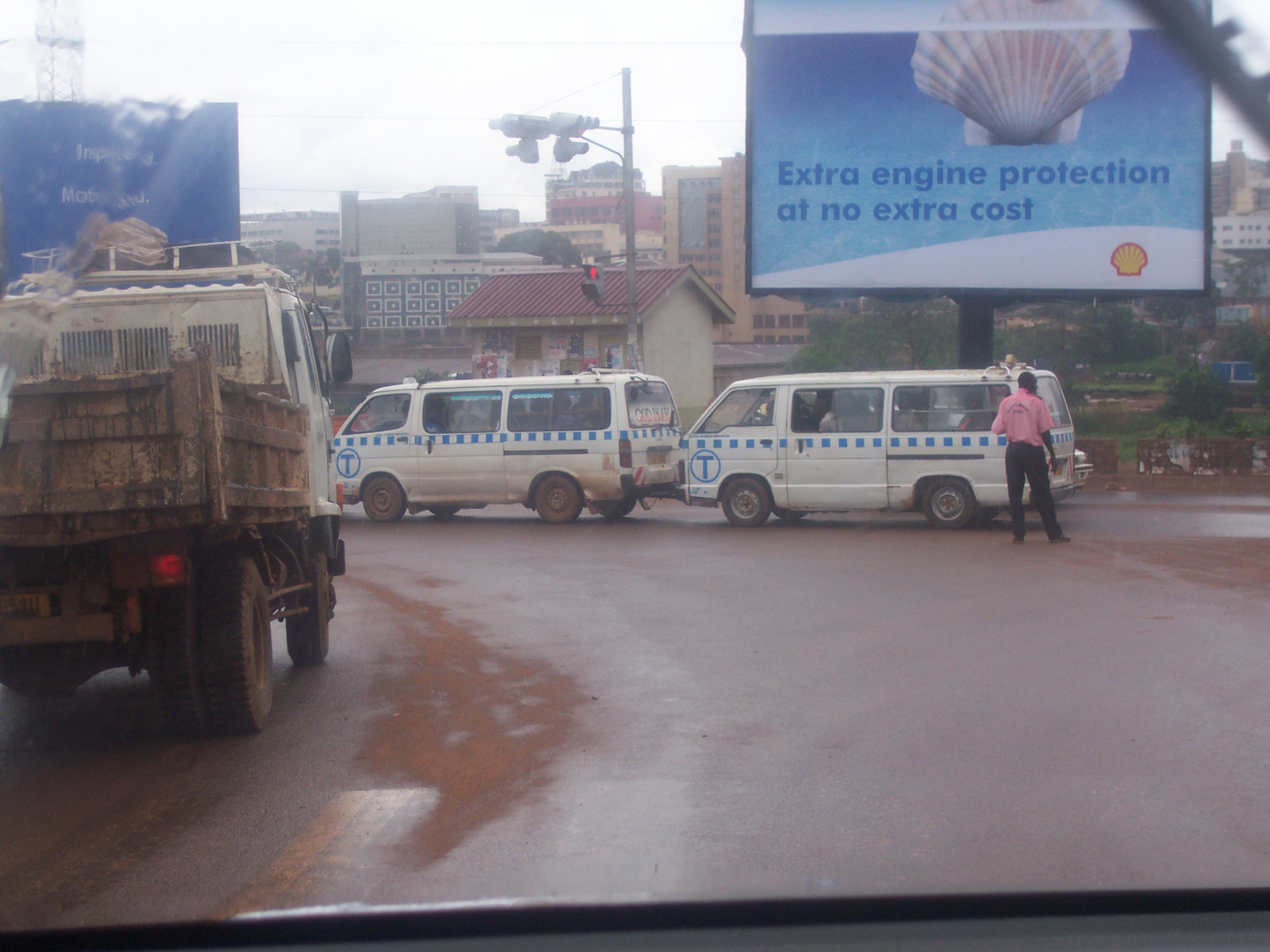 This is a photo of taxis clogging traffic in downtown Kampala, Uganda. It was taken by Michael Shade in the fall of 2006. Use it for whatever.